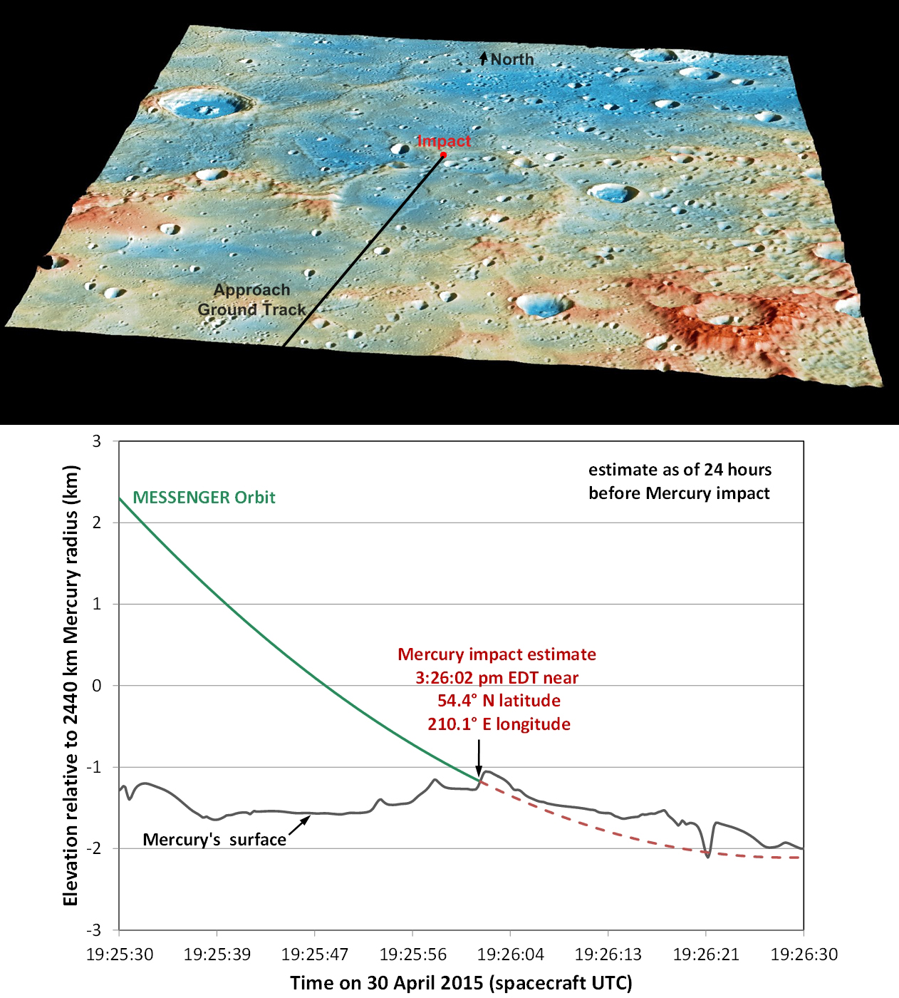 These graphics show the current best prediction of the location and time of MESSENGER's impact on Mercury's surface, as of 24 hours before the impact. Those current best estimates are: Date: 30 April 2015 Time: 3:26:02 pm EDT (19:26:02 UTC) Latitude: 54.4° N Longitude: 210.1° E Traveling at 3.91 kilometers per second (over 8,700 miles per hour), the MESSENGER spacecraft will collide with Mercury's surface, creating a crater estimated to be 16 meters (52 feet) in diameter.